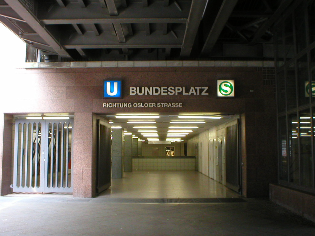 Entrance of the Berlin-S- and U-Bahn-station Bundesplatz